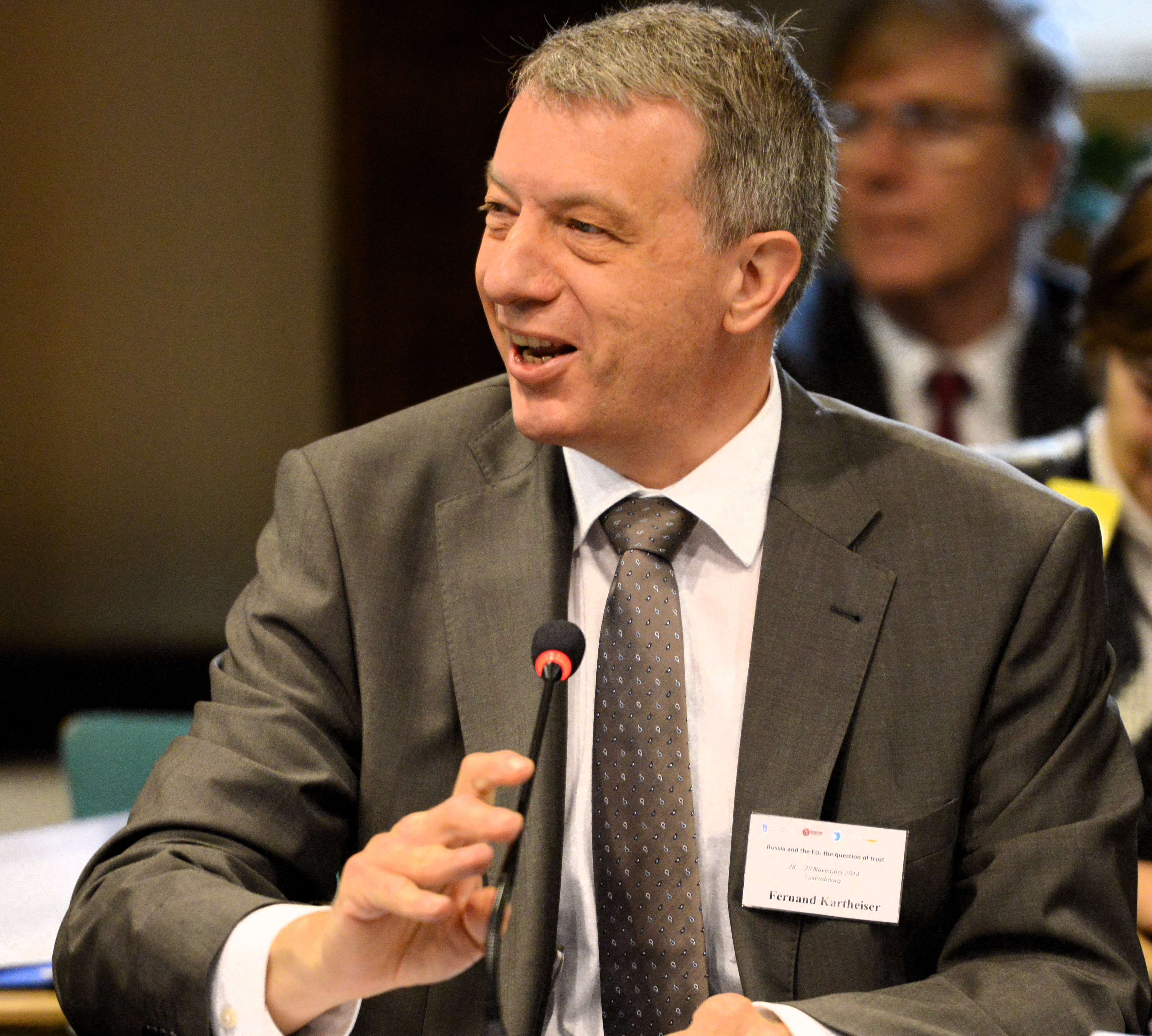 The Institut d'études européennes et internationales du Luxembourg together with the Russkiy Mir Foundation, the Russian Centre of Science and Culture in Luxembourg and the Alexander Gorchakov Public Diplomacy Fund organized the conference Russia and the EU: the question of trust, Luxembourg, 28 - 29 November 2014. Fernand Kartheiser, Member of the Commission on European and Foreign Affairs, Defence, Cooperation and Immigration, Chamber of Deputies, Luxembourg.